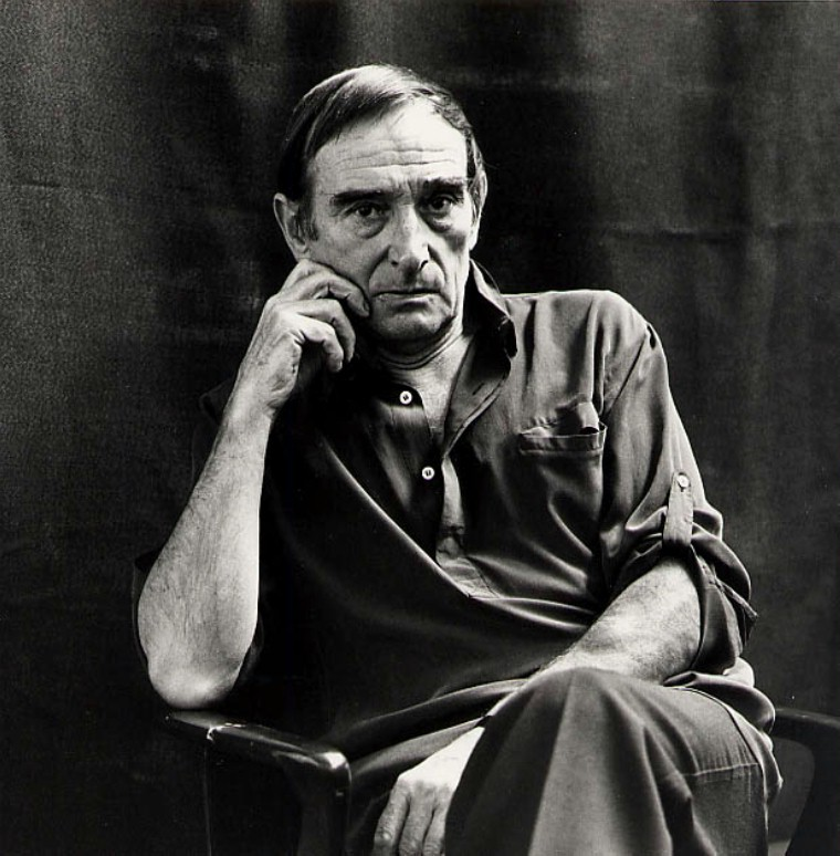 Photo of the German abstract expressionist painter Emil Schumacher.